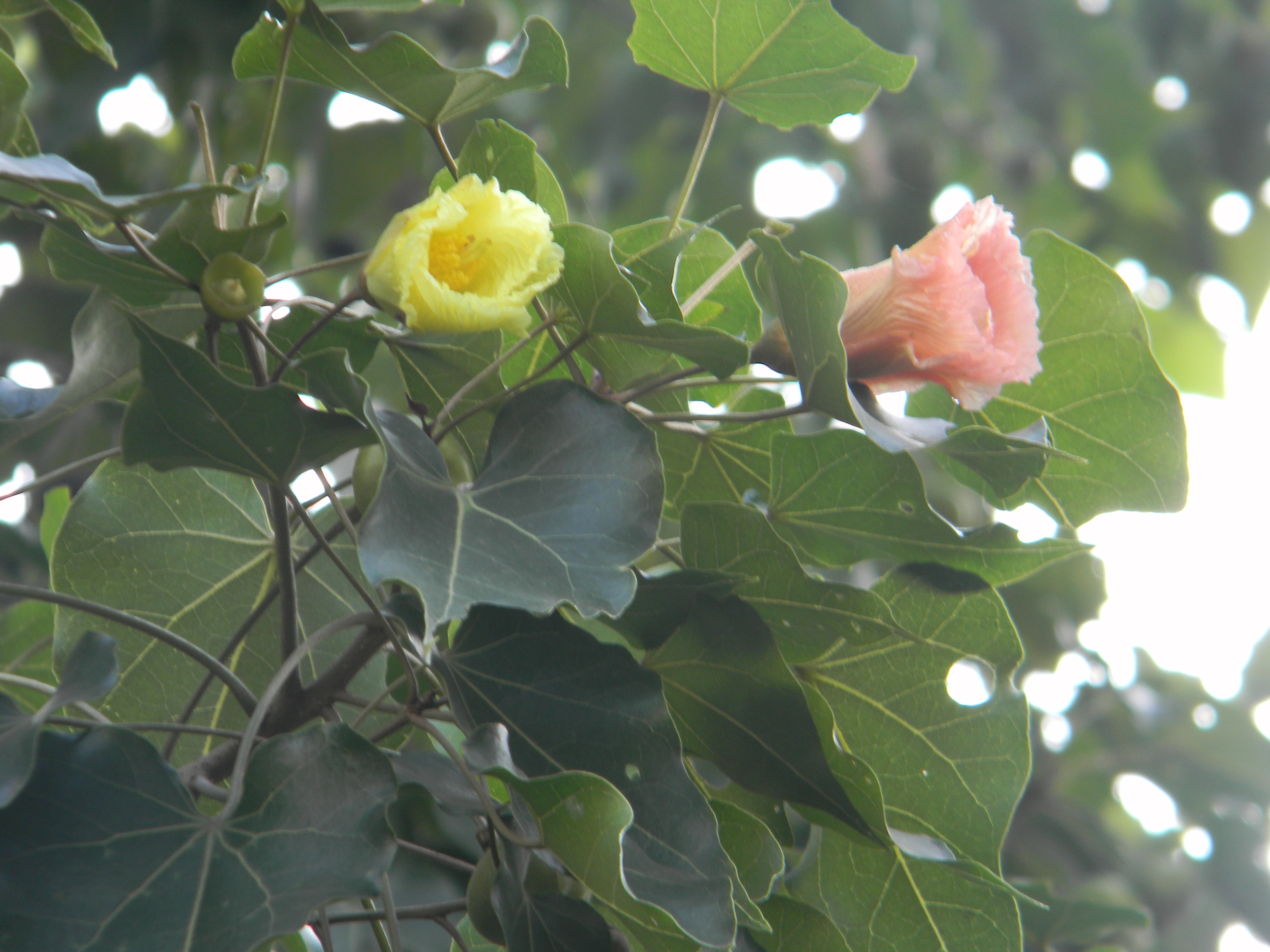 Portia tree or Indian tulip tree is an evergreen bushy tree.It has many medicinal properties.Also it's timber is hard, termite-resistant, has an attractive grain and dark-red colour, and is naturally oily so it can be highly polished (thus it is also called Pacific Rosewood).